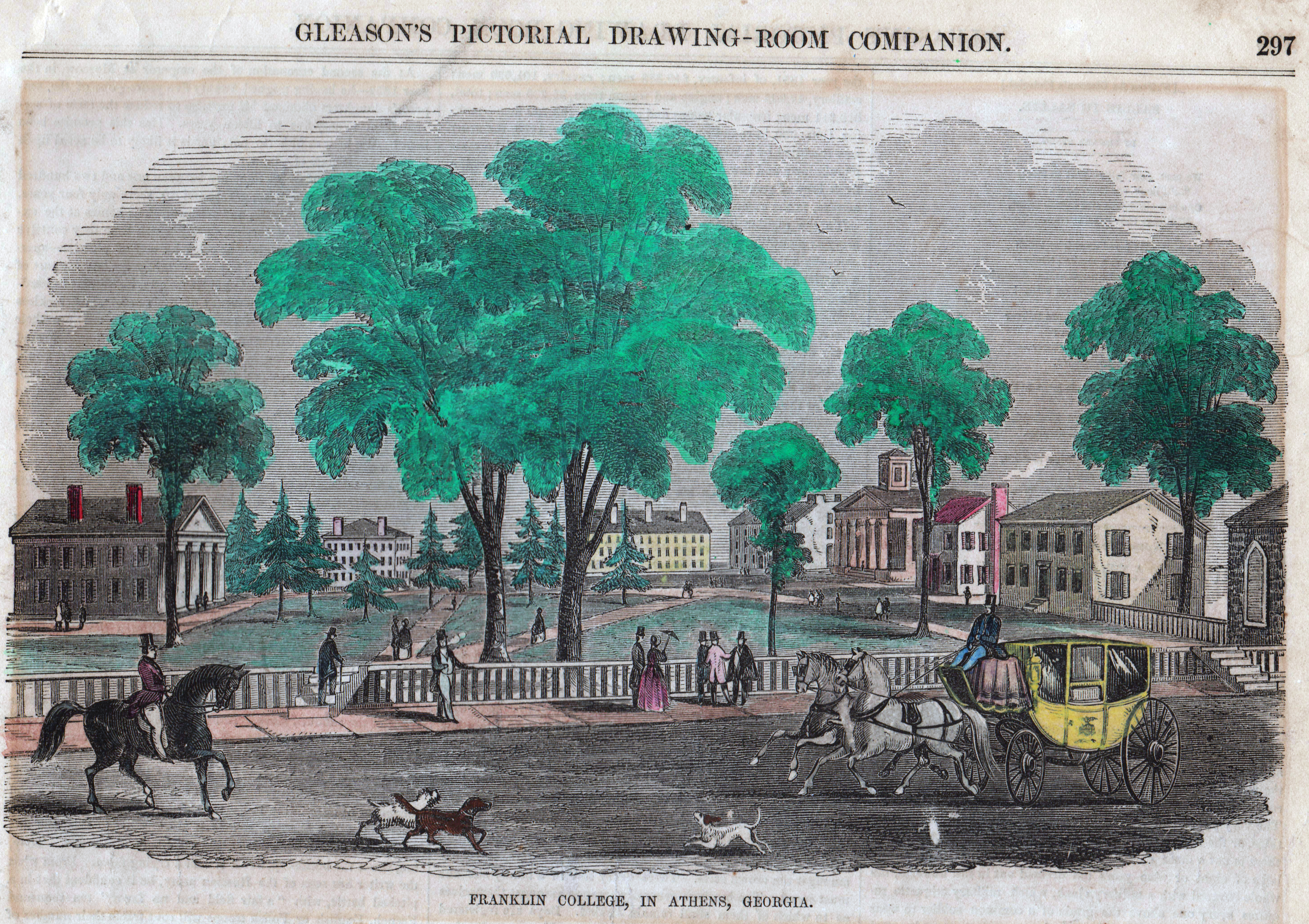 Franklin College in Athens, GA, USA. It became the University of Georgia